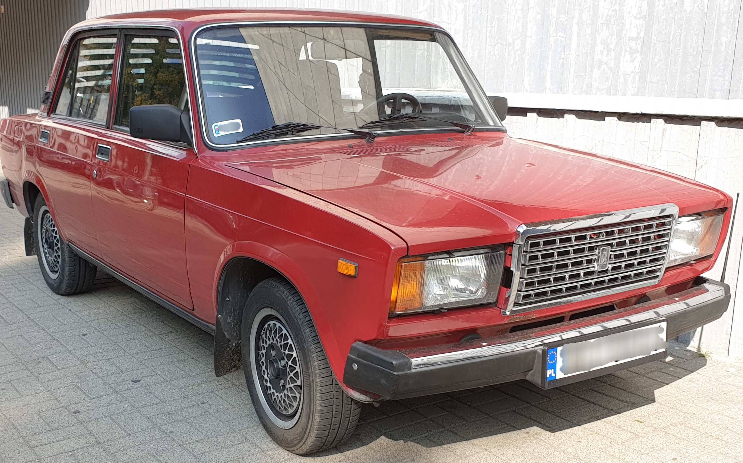 Lada 2107 (VAZ-2107)